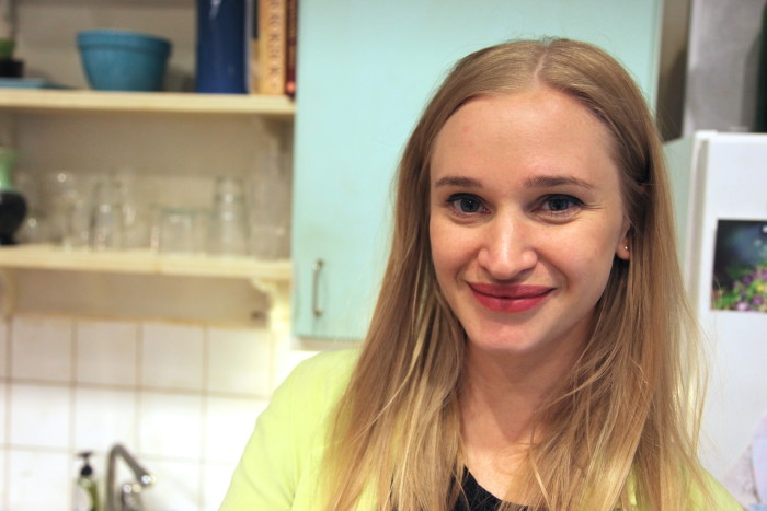 Actress Vera Vitali at the set of "Min så kallade pappa", directed by Ulf Malmros. June 2013.